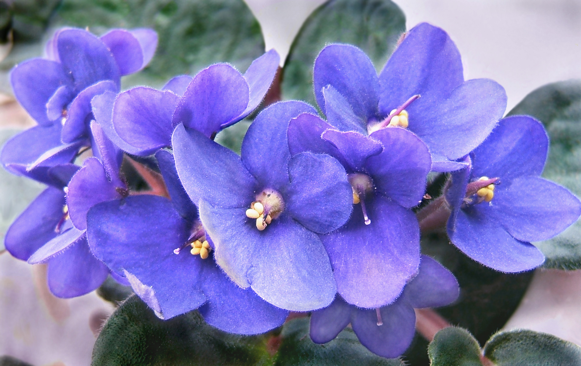 African-violet